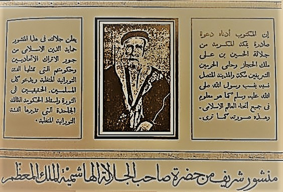 A Newspaper publising the declare of revolution against the İttihad ve Terakki Cemiyeti goverment